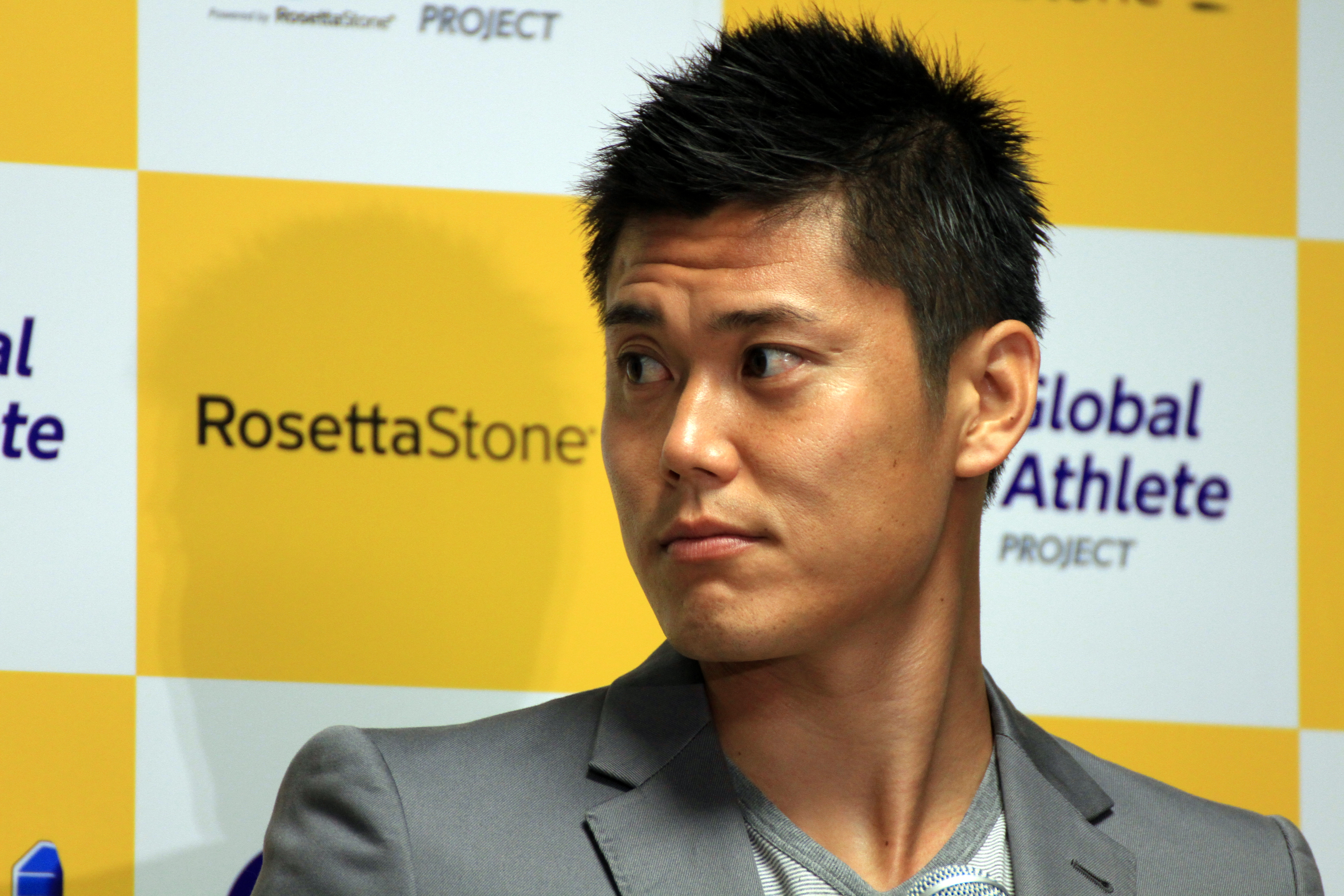 Japanese goalkeeper Eiji Kawashima at a presentation for product launch.